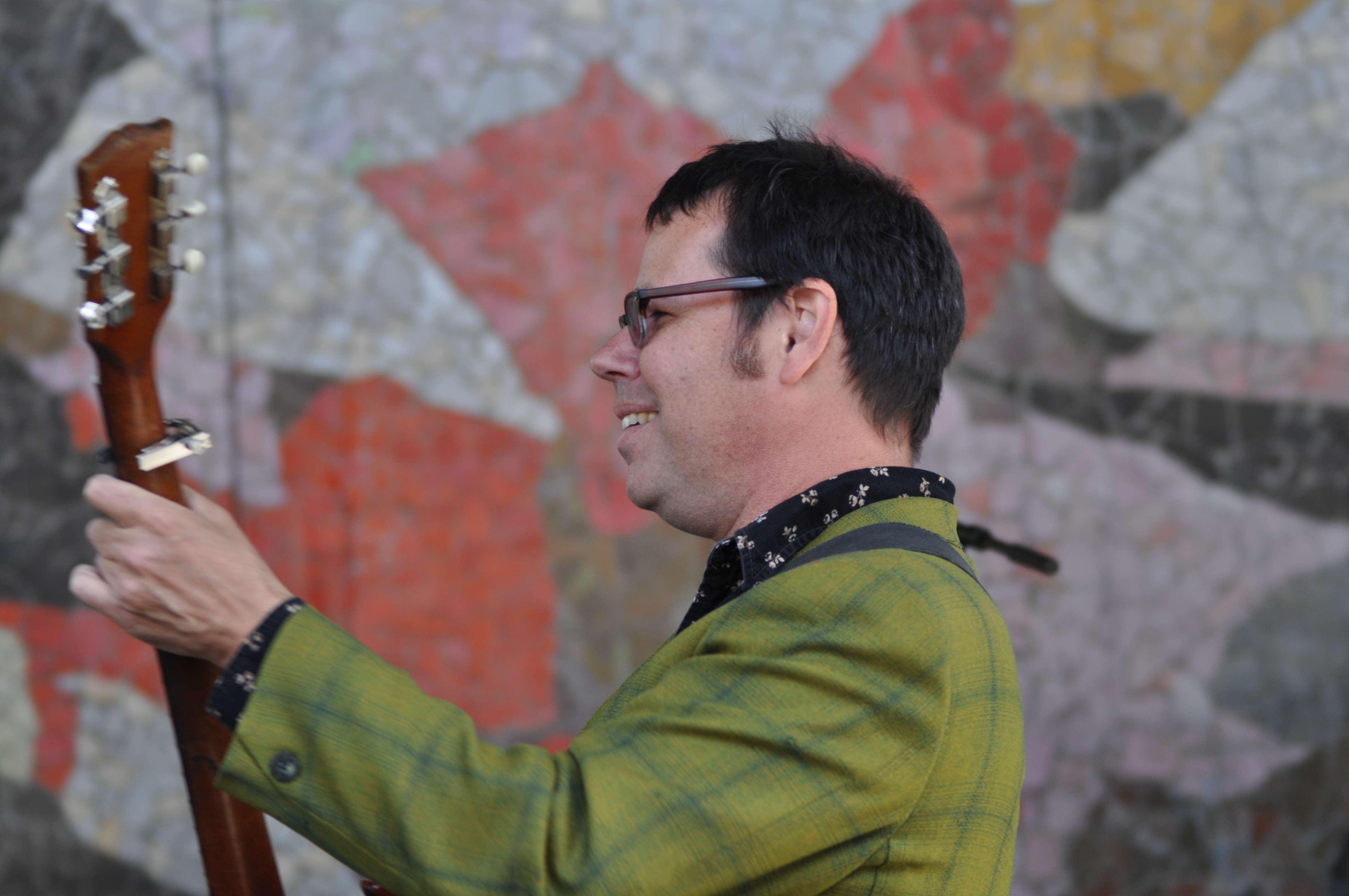 The Tripwires play at the Mural Amphitheatre during Bumbershoot, Seattle Center, Seattle, Washington.